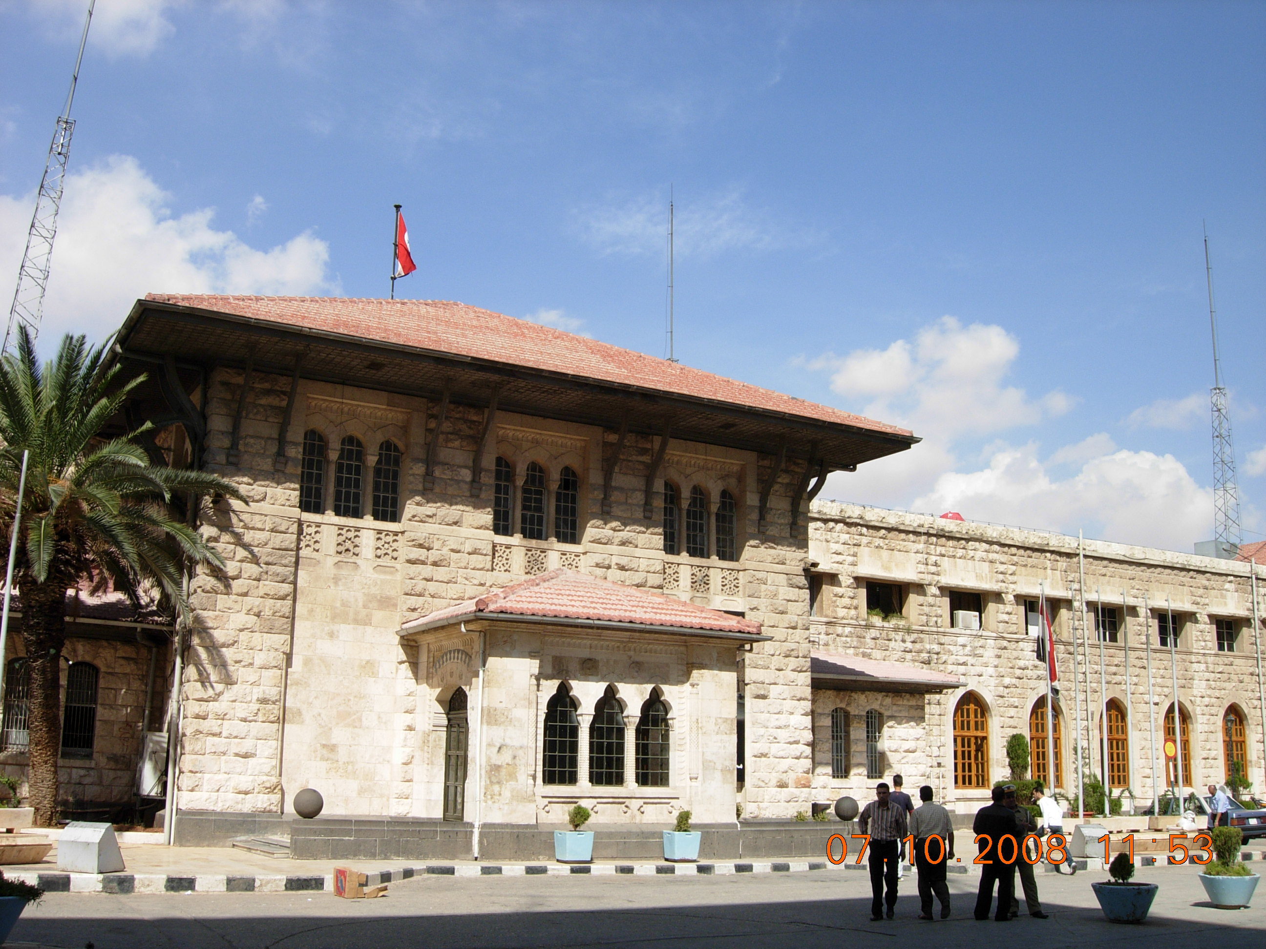 محطة القطار-Train Main station